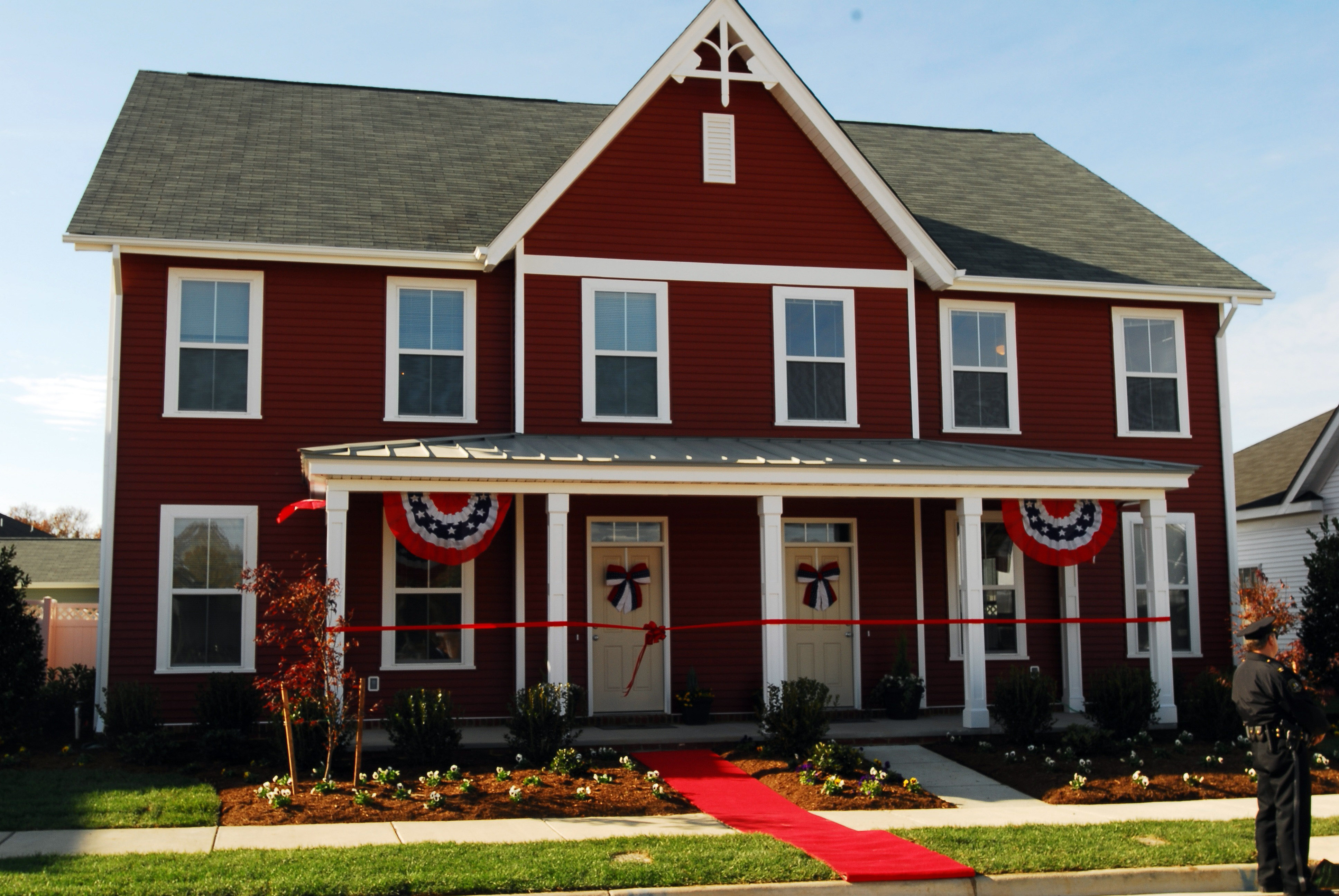 Norfolk, Va. (Nov. 6, 2006) - U.S. Navy Petty Officer Steve Wagner and his family prepare to move into a newly constructed home during a ribbon cutting ceremony at the Village at Whitehurst. Lincoln Military Housing manages the homes. U.S. Navy photo by Mass Communication Specialist 2nd Class Kevin L. Burleson (RELEASED)